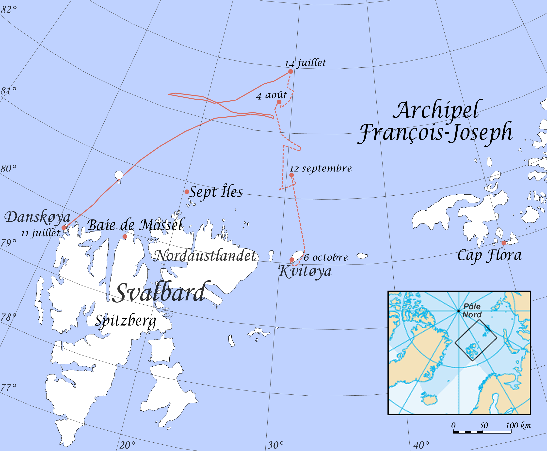 Map in French of Salomon August Andrée's Arctic balloon expedition of 1897.